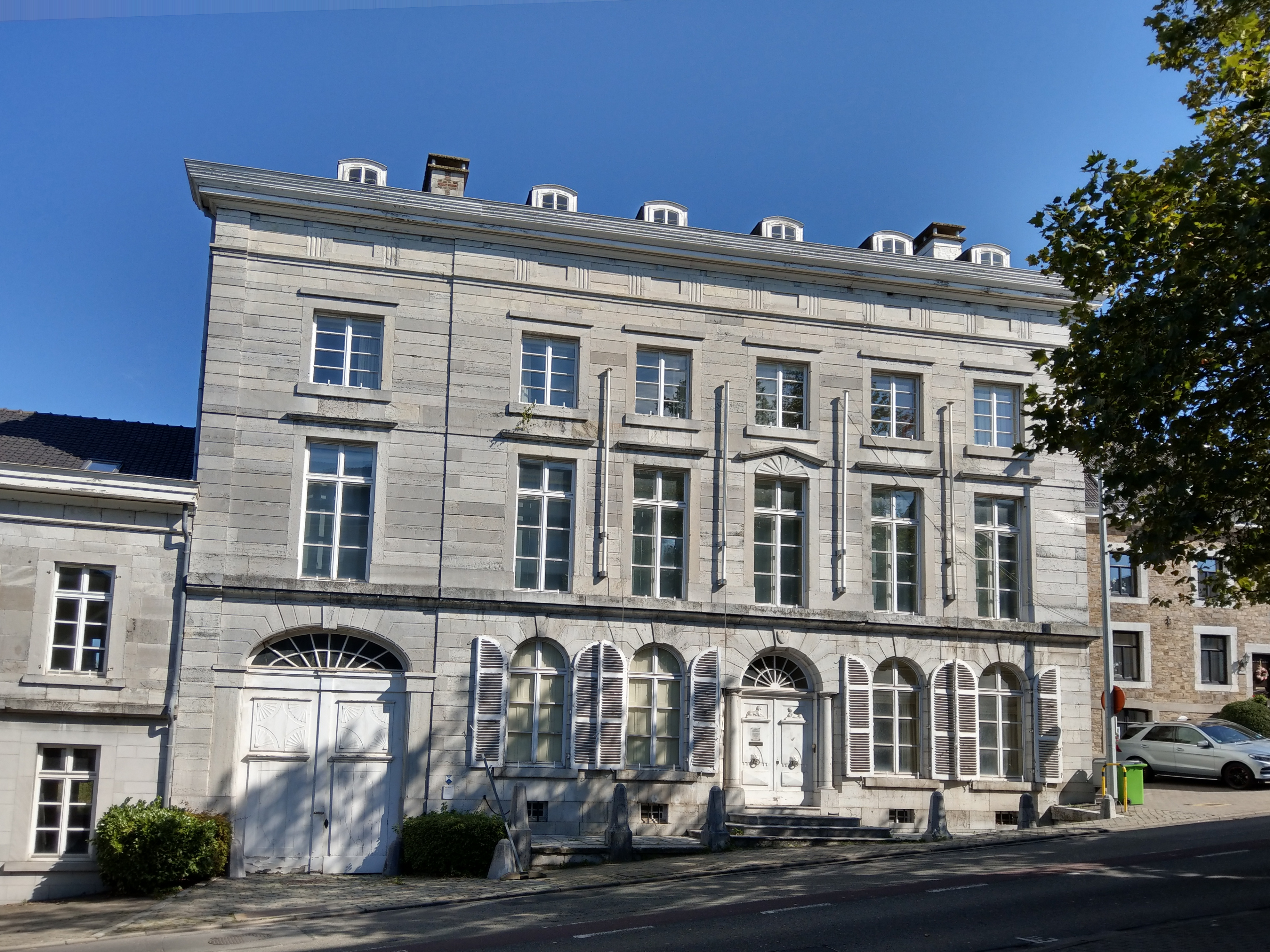 Haus Kaperberg 8